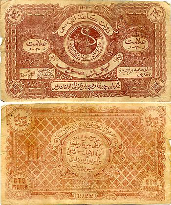 100 ruble of Bukhara